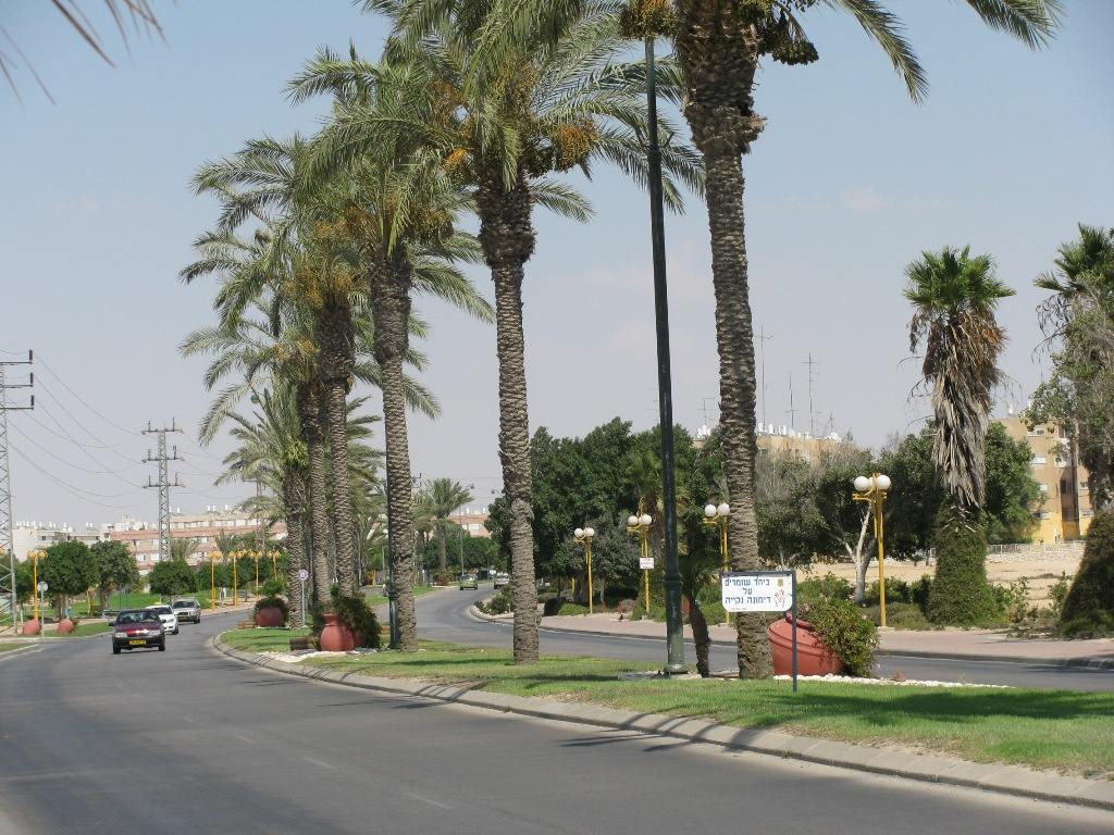 Palm Avenue entrance to the city